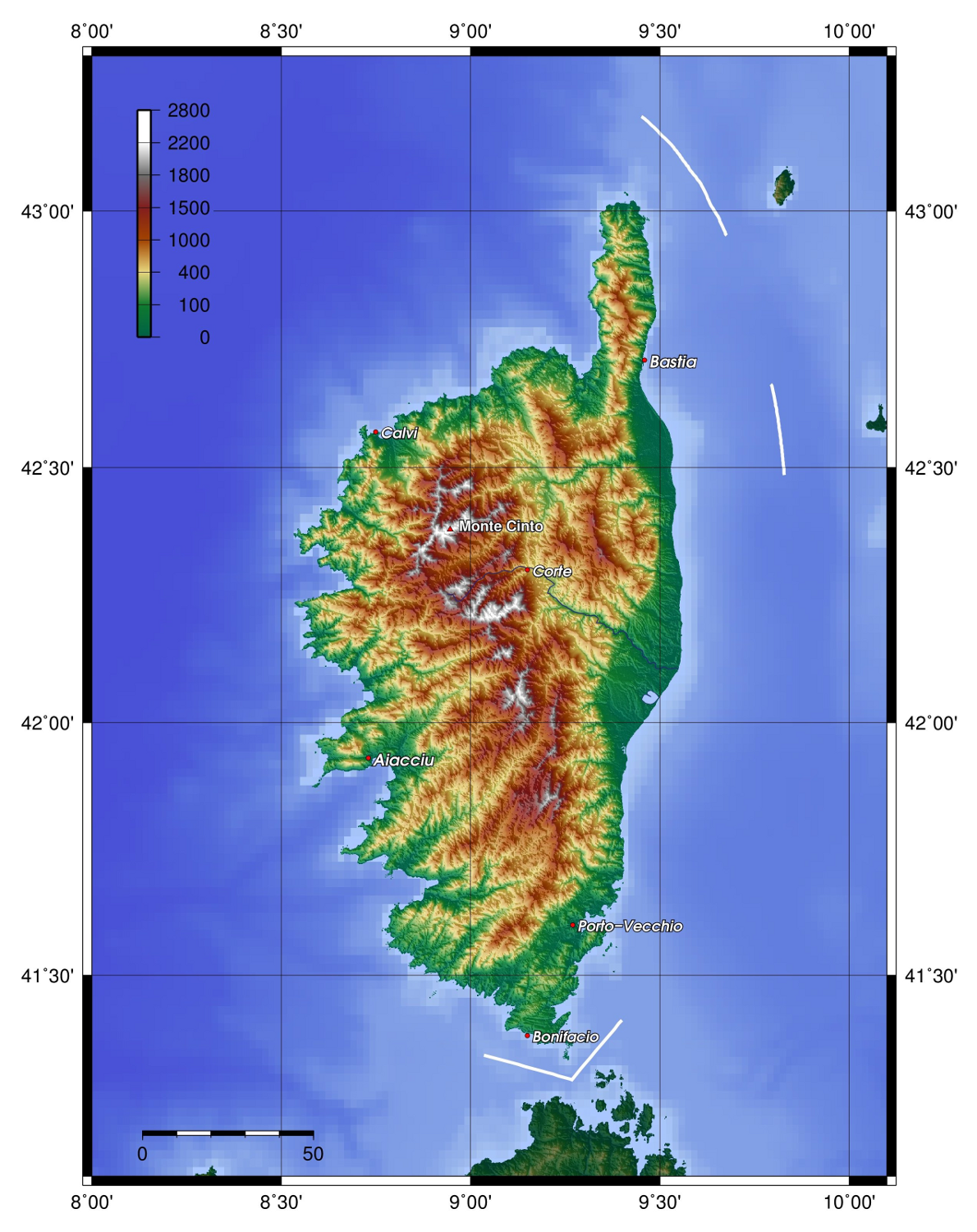 Description: Topography of Corsica, created with GMT 4.1.3